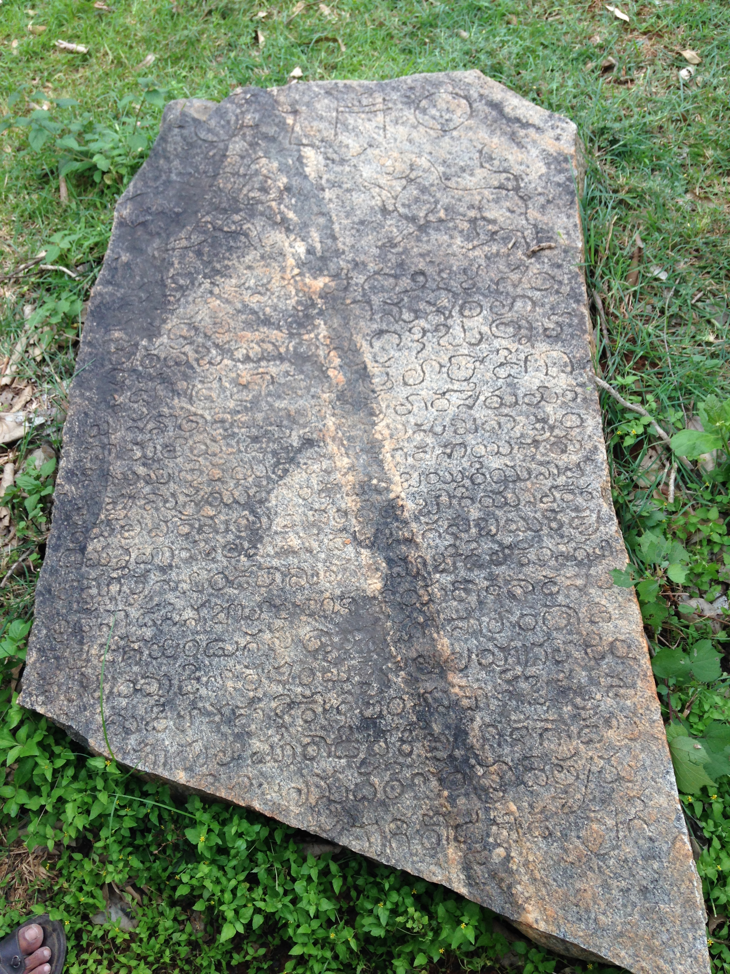 inscriptionstonesofbangalore